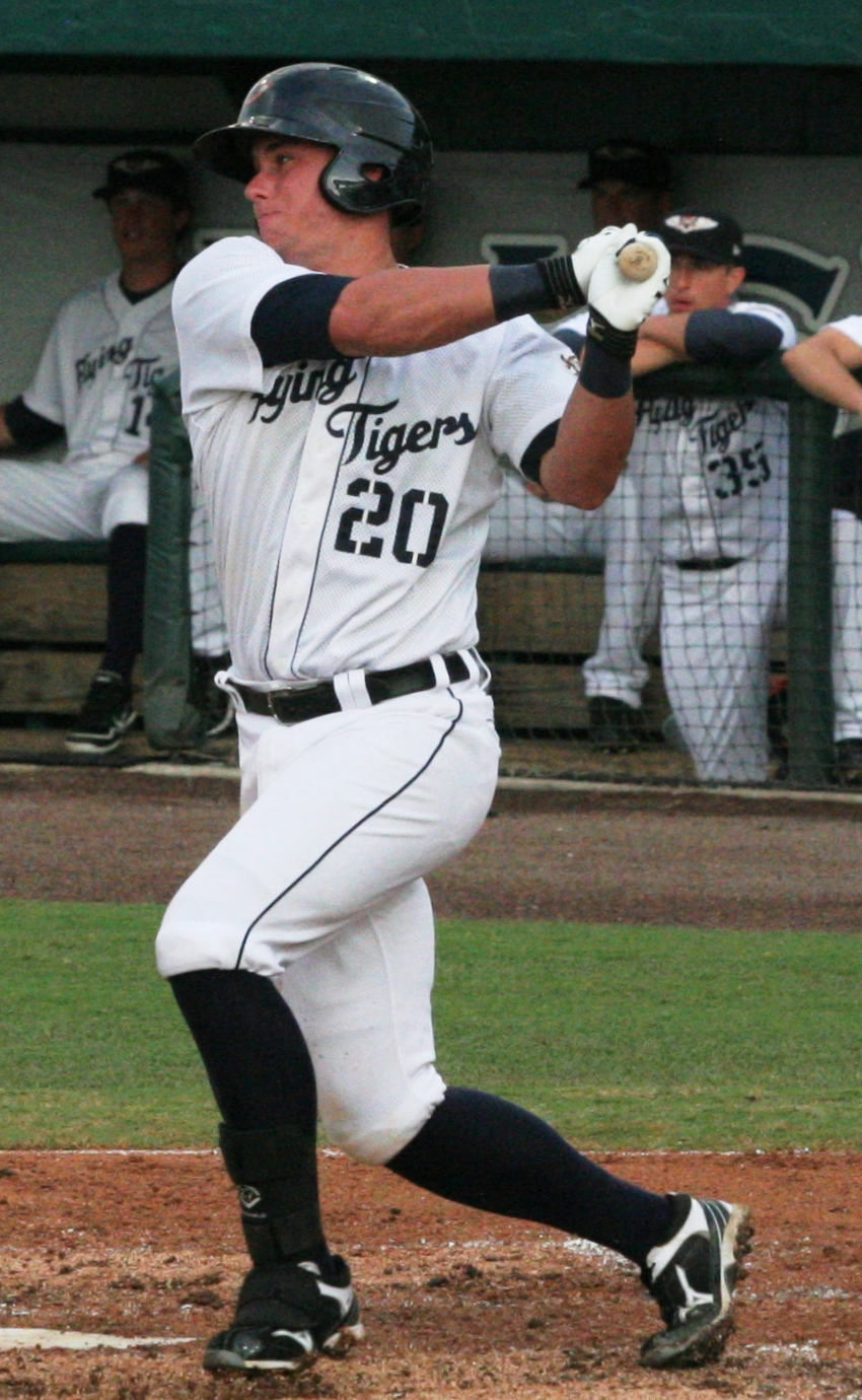 James McCann